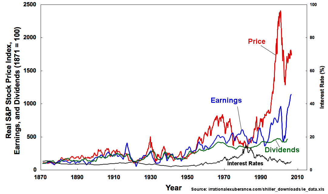 Plot of S&P Composite Real Price Index, Earnings, Dividends, and Interest Rates using data from